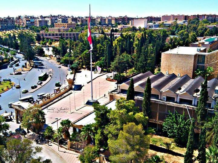 University of Aleppo